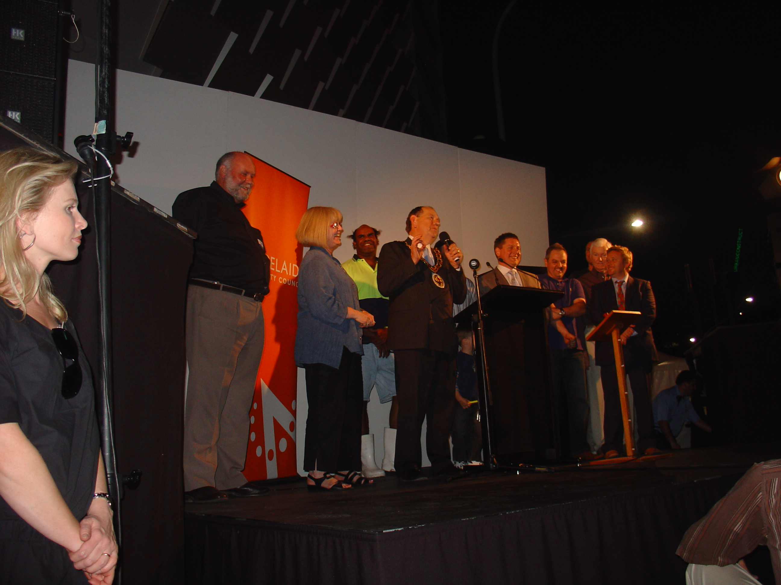 The Rundle Street Lights Cermony